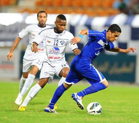 Sidy Keita in a match against Al Nasr Club.; Al Seeb Stadium; Muscat, Oman